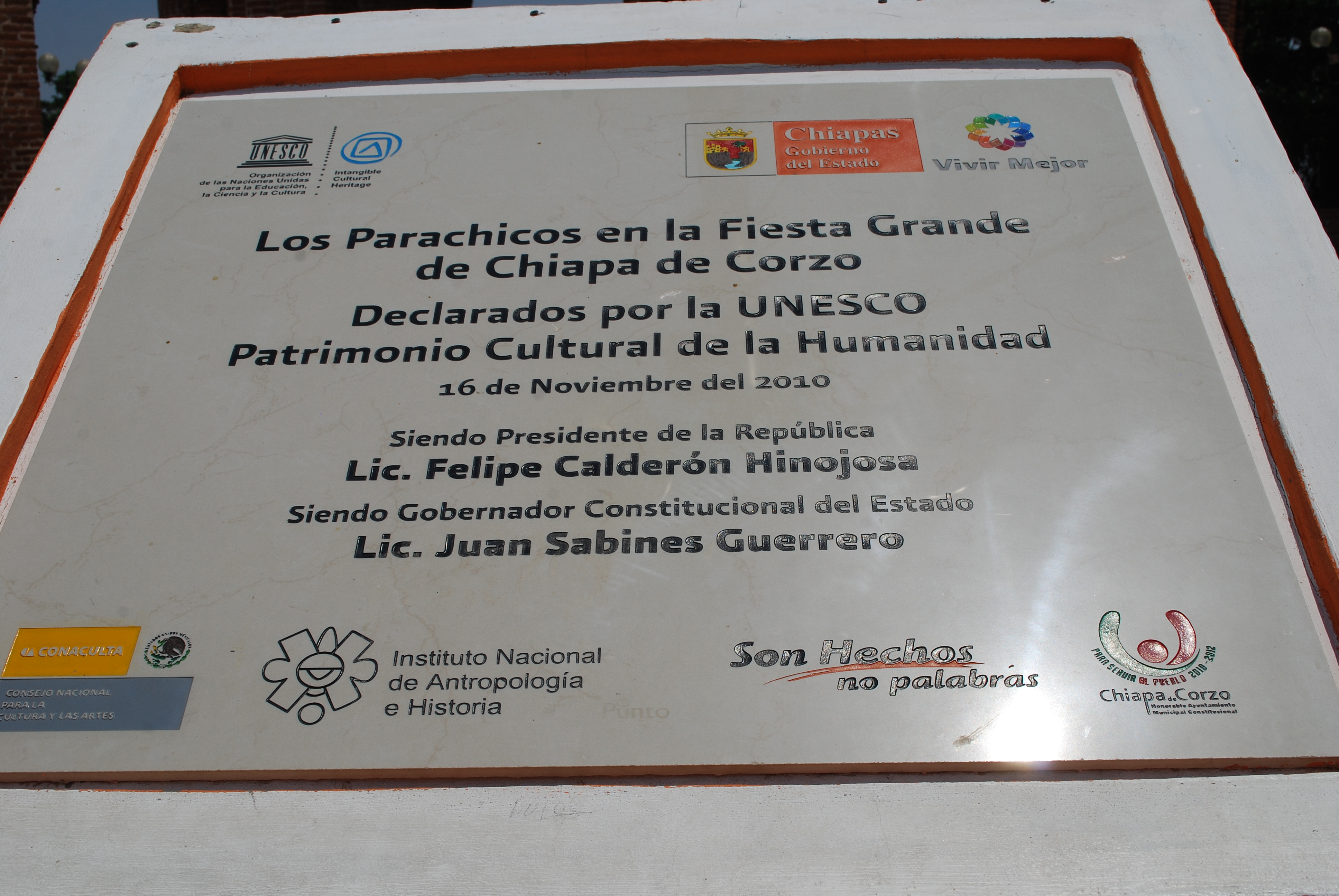 Plaque verfiying that the Parachicos dance has been made Cultural Heritage by the WHO in the main square of Chiapa de Corzo, Chiapas, Mexico